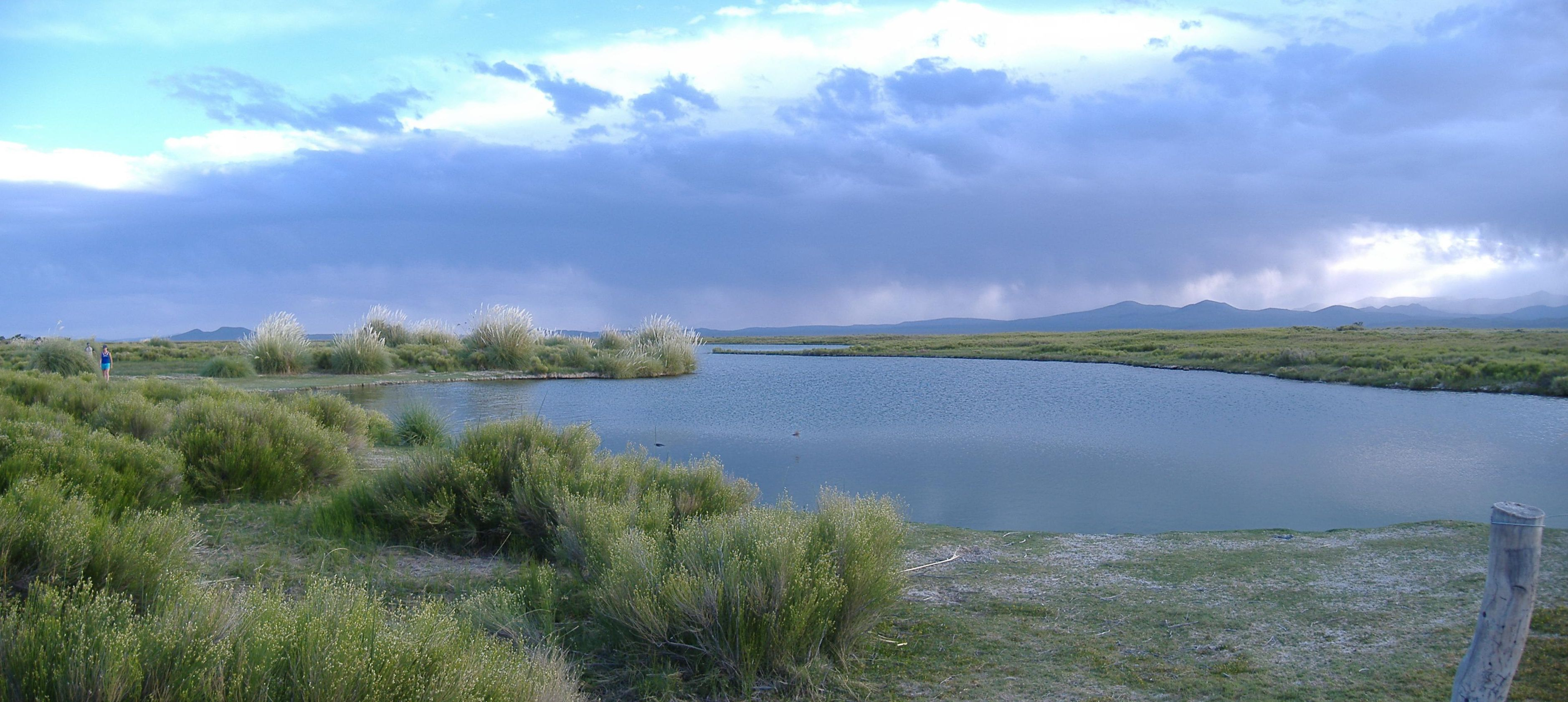 An area around the Llancanelo Lagoon in Malargüe, Mendoza, Argentina. This salty, shallow lagoon is located in the Depression of the Huarpes (about 1,200 m a.m.s.l.), surrounded by long-dormant volcanoes, and is home to many aquatic birds including flamingos.